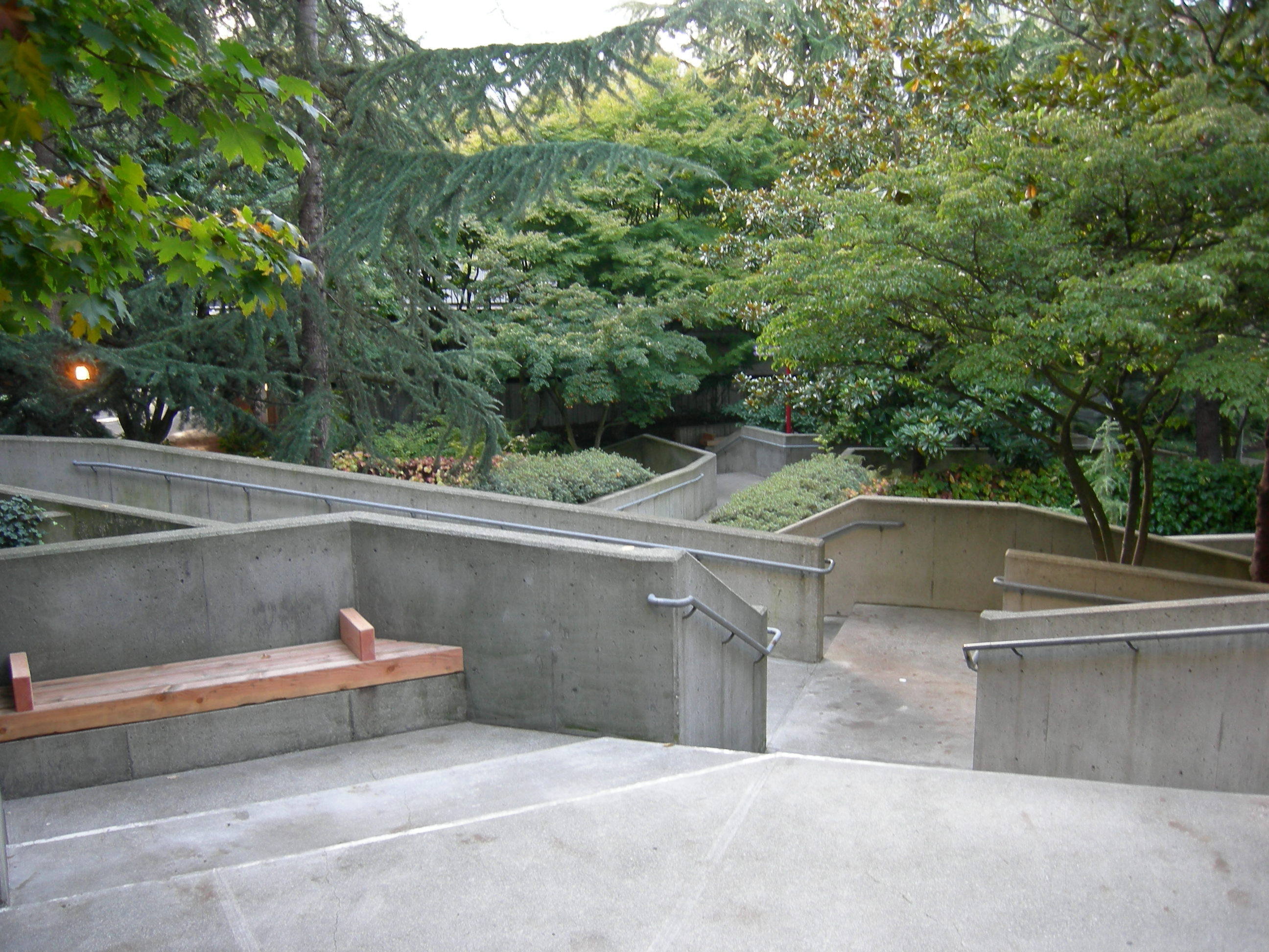 Freeway Park, Seattle, Washington: this is east of Interstate 5, where a narrow arm of the park works its way up First Hill.